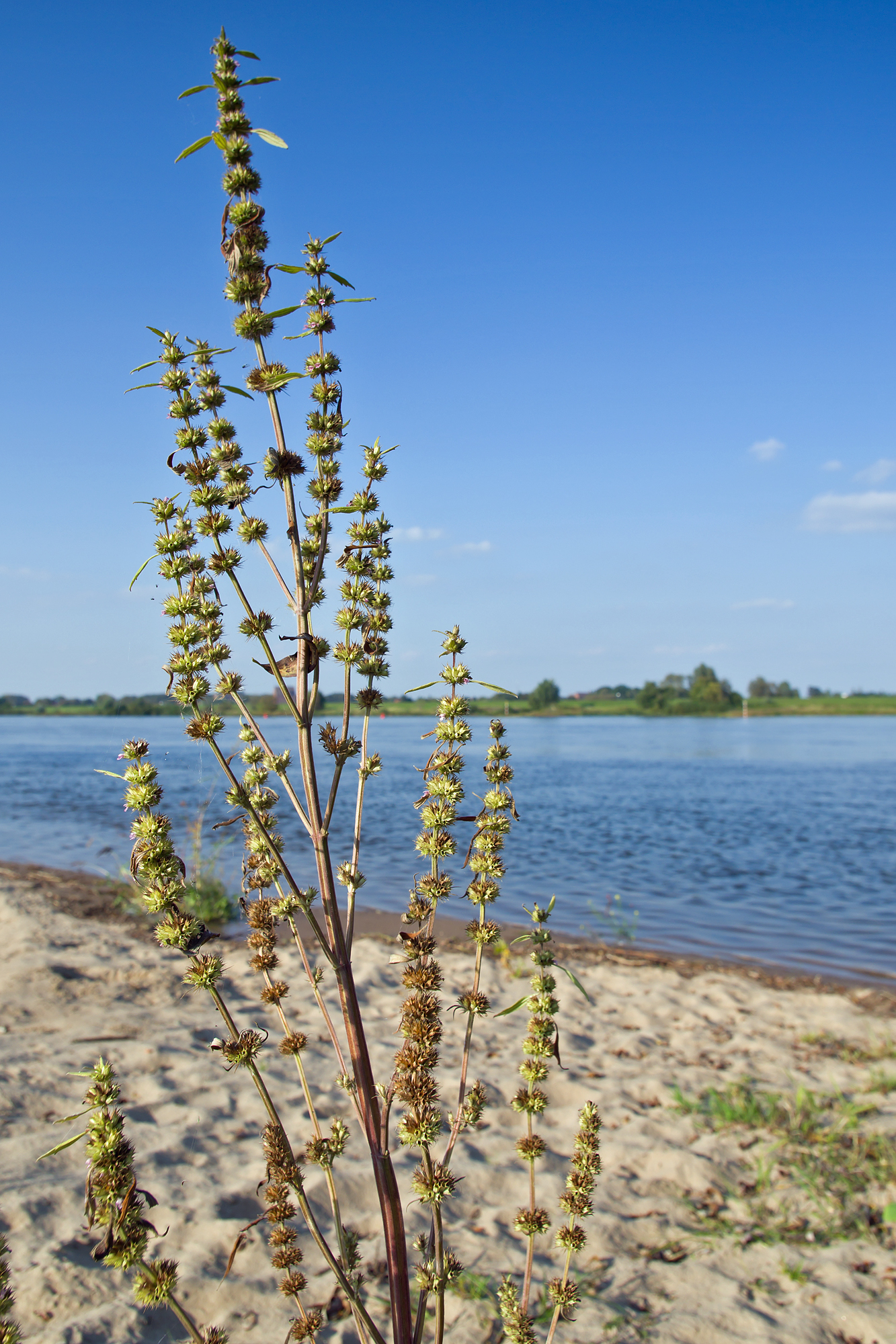 Infructescence of Lion's tail, Leonurus marrubiastrum, at the banks of the river Elbe.